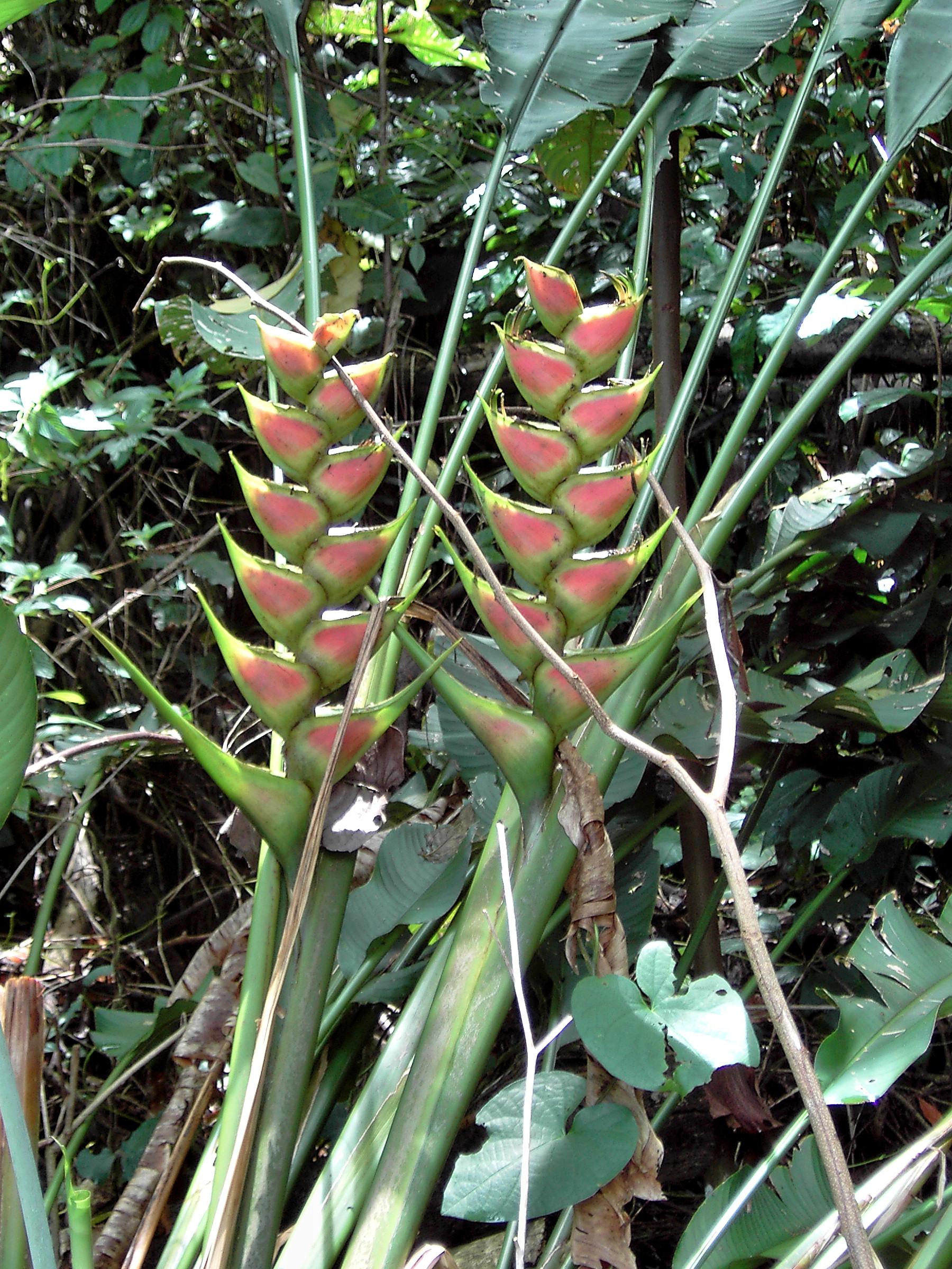 near Palm Tree House, Woodfordhill, Dominica, W.I.